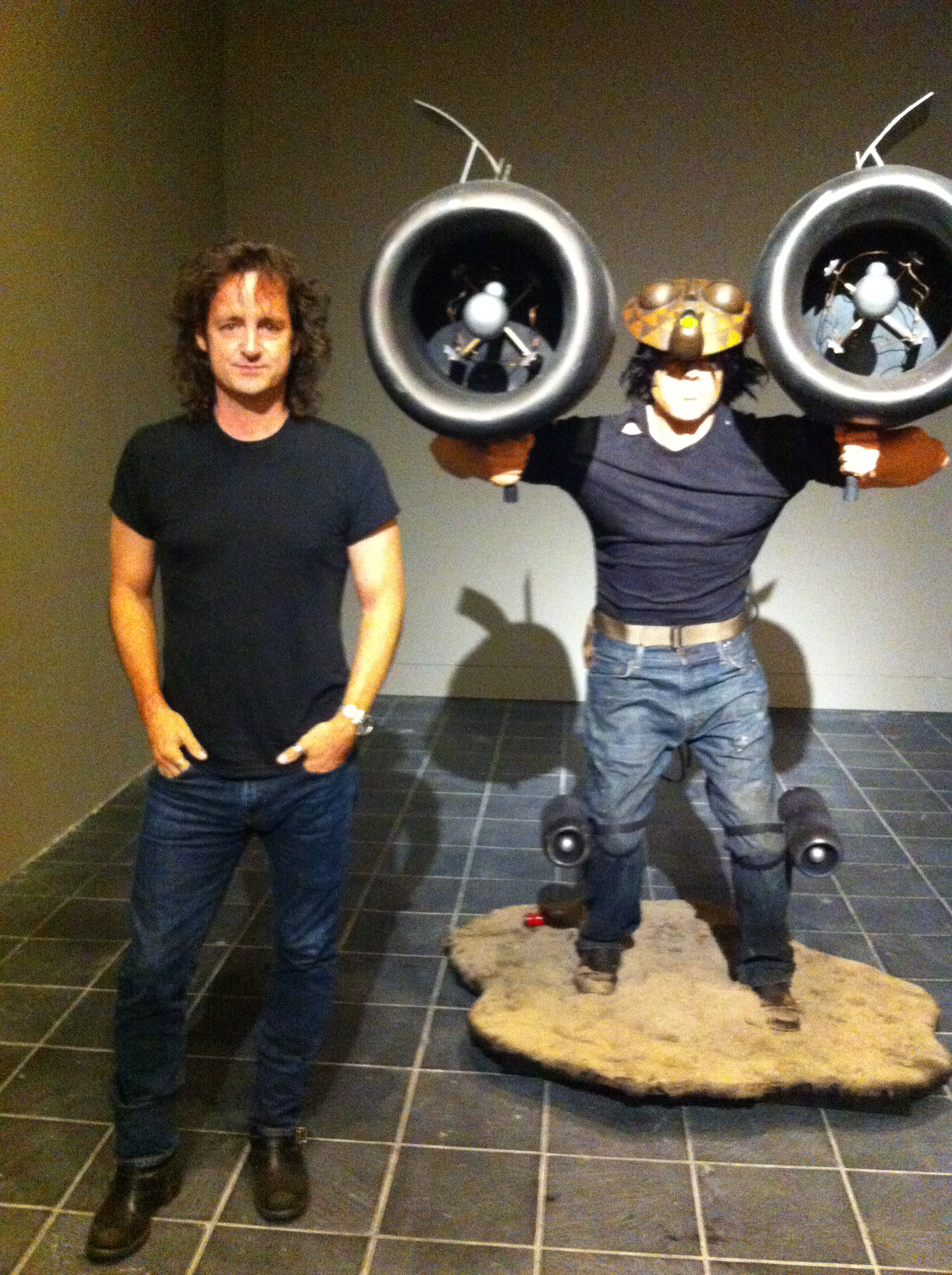 Jeff Smith with life-size RASL figure at the opening of CCAD MIX Event in Columbus, OH, Sept. 27, 2013